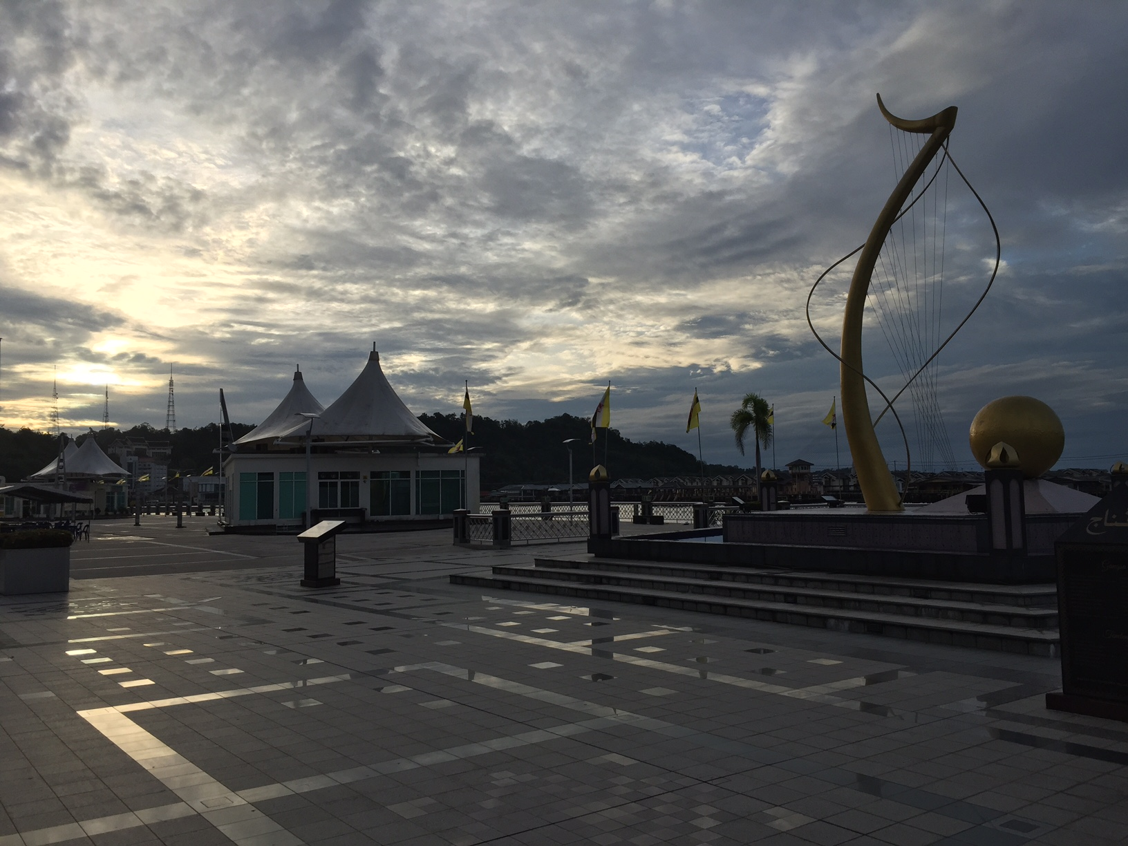 peaceful sunrise